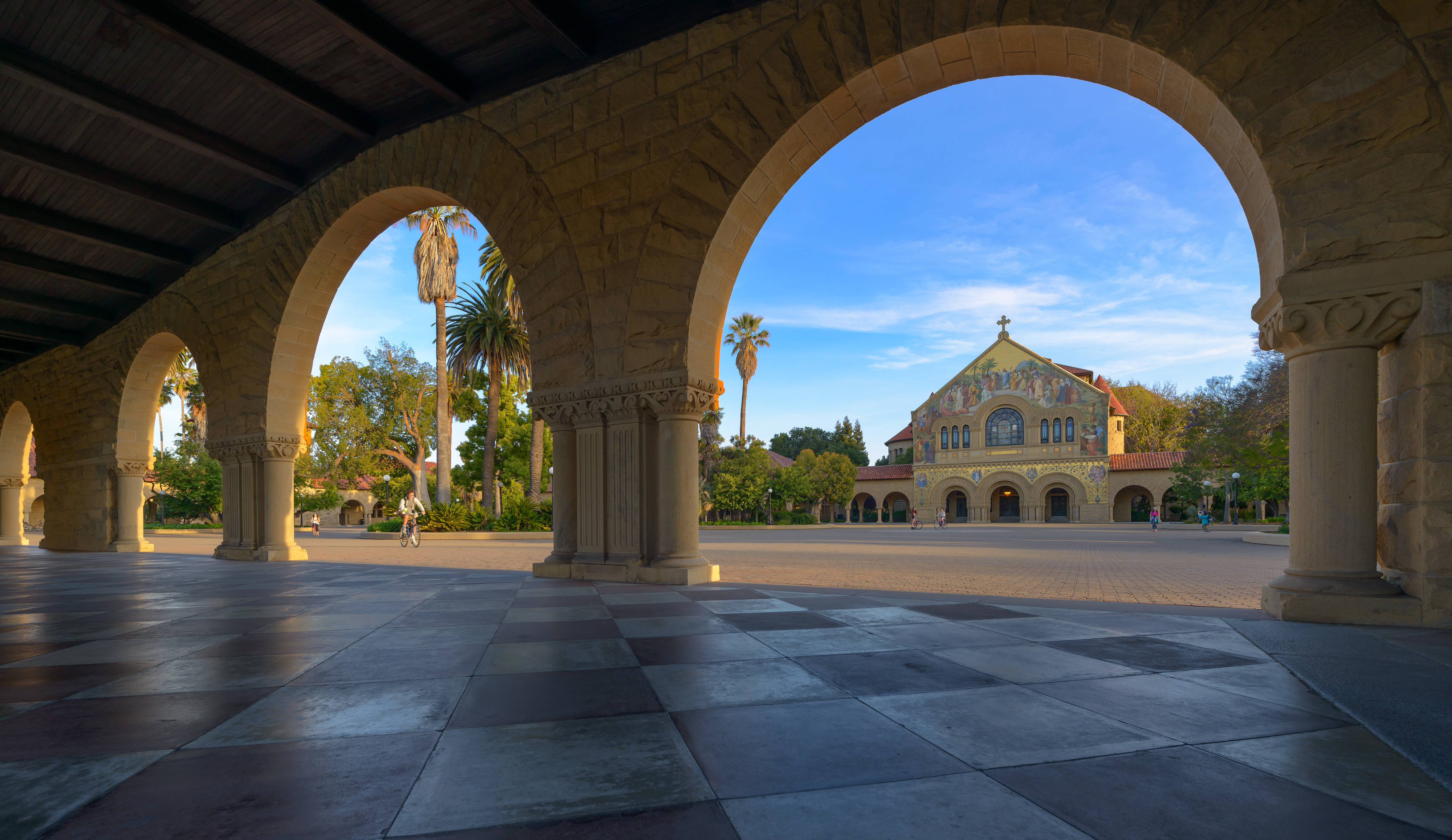 Stanford University Arches with Memorial Church in the background